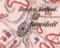 Prehistoric tombs near Römstedt